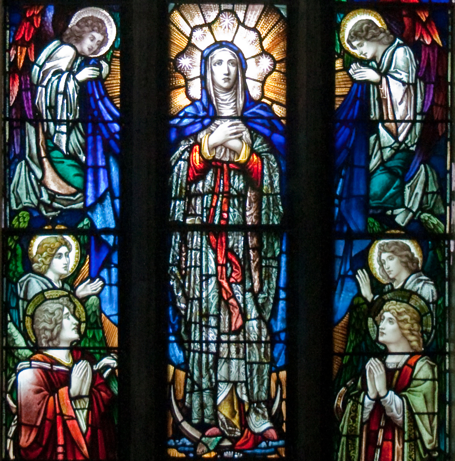 Tuam Cathedral of the Assumption, County Galway, Ireland Detail out of a stained glass window titled Maria in Coelum assumpta in the east-most bay of the north aisle. Designed and manufactured by Joshua Clarke (1858–1921) and the Harry Clarke Studios (1889–1931). This image has been cropped out of File:Tuam Cathedral of the Assumption Window Maria in Coelum assumpta 2009 09 14.jpg.